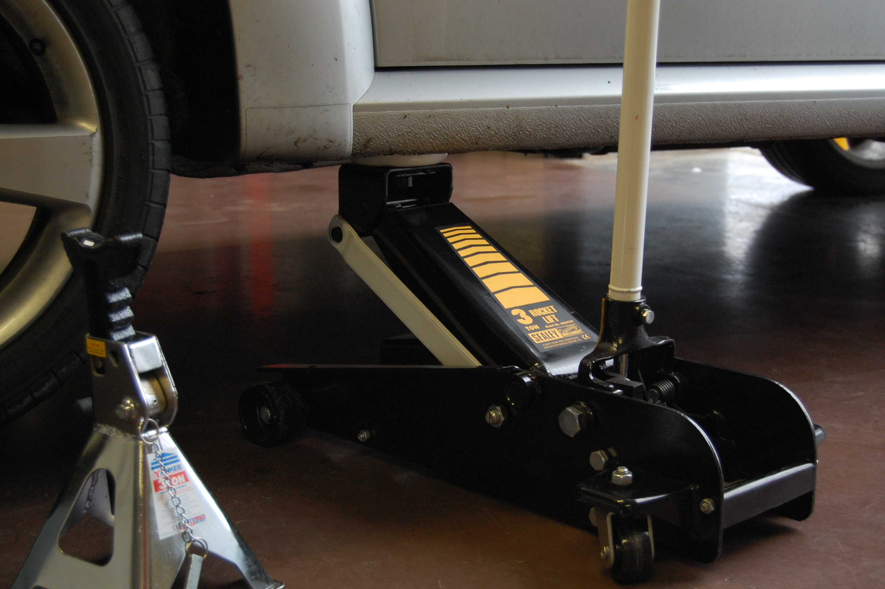 An hydraulic jack (Sealey 3003CXQ Trolley Jack Premier 3 Ton Super Rocket Lift) and a jack stand (Sealey Yankee 3 ton).